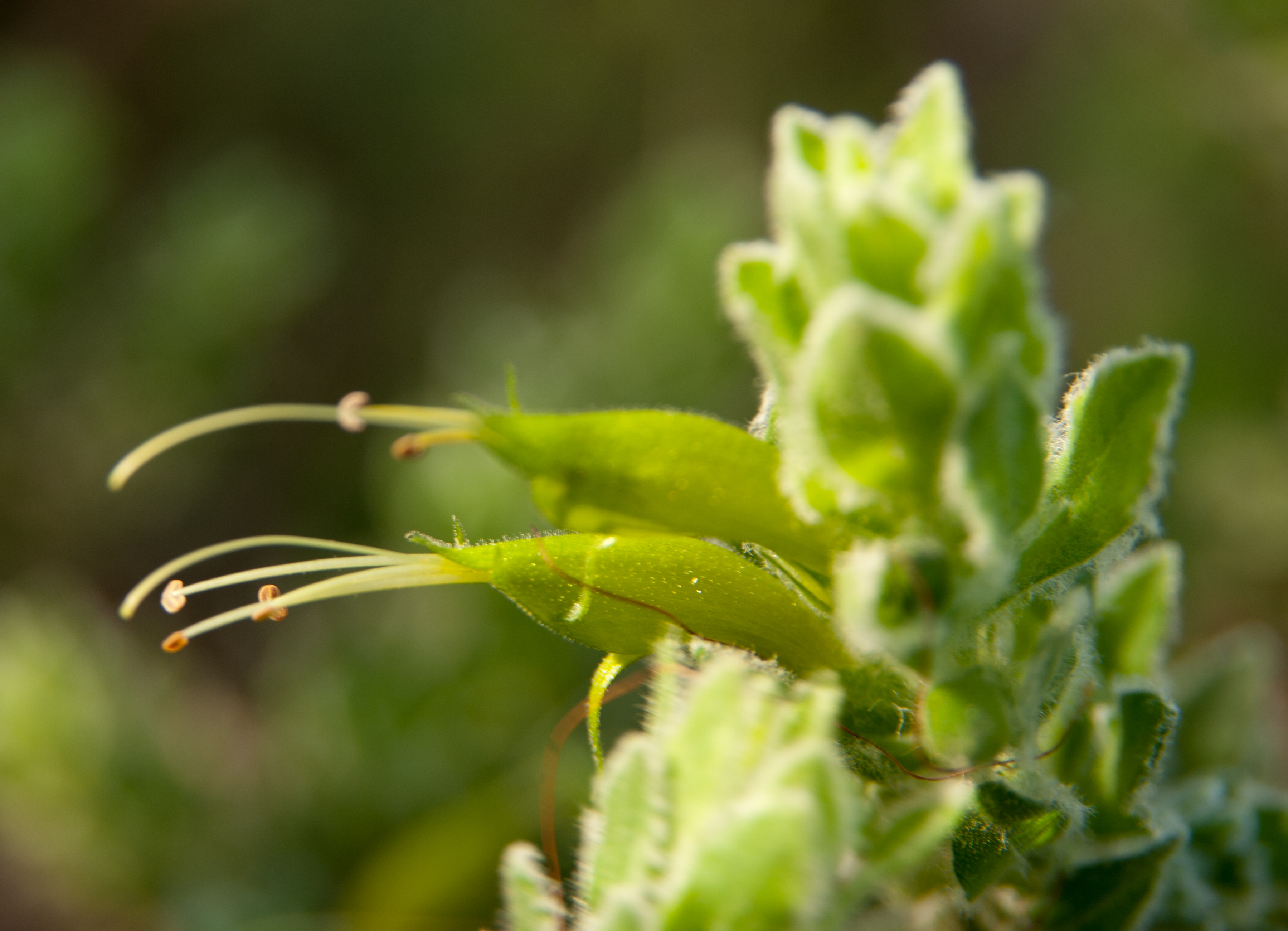 Eremophila subfloccoa